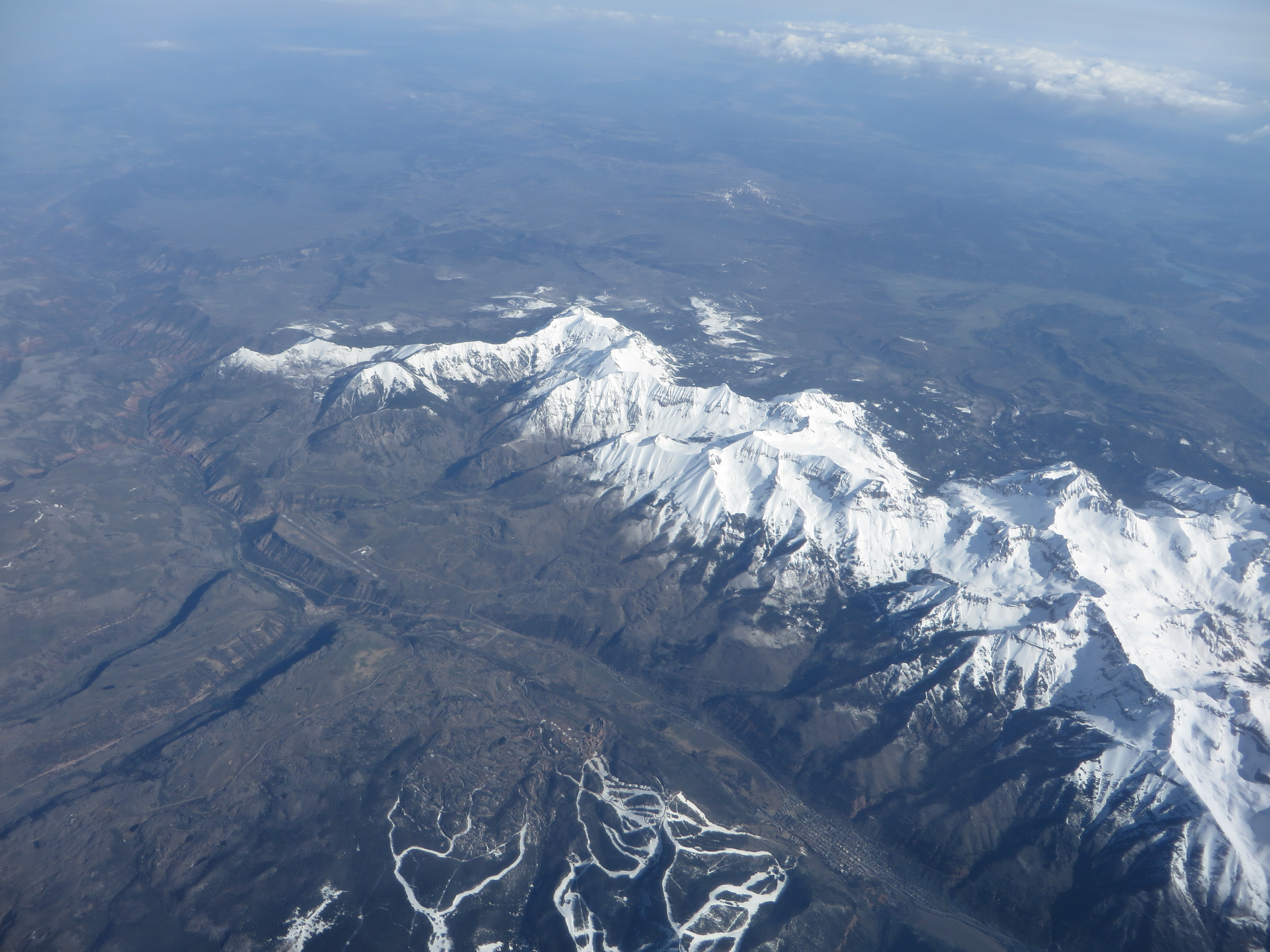 The San Juan Mountains are a high and rugged mountain range in the Rocky Mountains in southwestern Colorado, and is the largest mountain range in Colorado by area. The area is highly mineralized (the Colorado Mineral Belt) and figured in the gold and silver mining industry of early Colorado. Major towns, all old mining camps, include Creede, Lake City, Silverton, Ouray, and Telluride. Large scale mining has ended in the region, although independent prospectors still work claims throughout the range. Tourism is now a major part of the regional economy, with the narrow gauge railway between Durango and Silverton being an attraction in the summer. Jeeping is popular on the old trails which linked the historic mining camps, including the notorious Black Bear Road. Visiting old ghost towns is popular, as is wilderness trekking and mountain climbing. The San Juans are extremely steep and receive a lot of snow; only Telluride has made the transition to a major ski resort. Purgatory (now known as Durango Mountain Resort) is a small ski area north of Durango near the Tamarron Resort. There is also skiing on Wolf Creek Pass at the Wolf Creek ski area. Recently Silverton Mountain ski area has begun operation near Silverton. The Rio Grande rises on the east side of the range. The other side of the San Juans, the western slope of the continental divide, is drained by tributaries of the San Miguel, Dolores and Gunnison rivers, which all flow into the Colorado River.